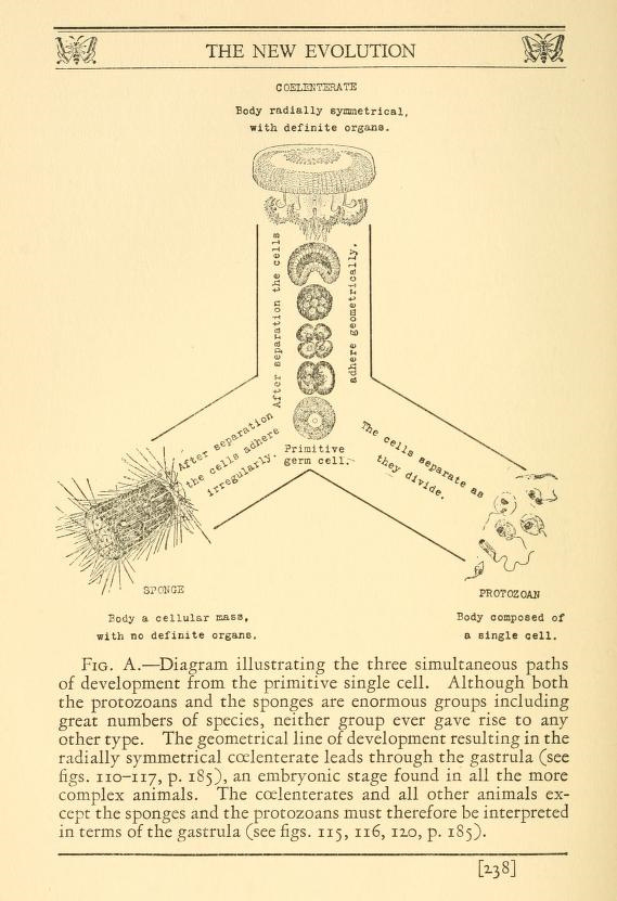 Diagram from Austin Hobart Clark's Zoogenesis.